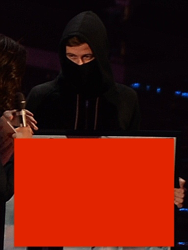 Alan Walker at the Wind Music Awards 2016 ceremony at the Verona Arena